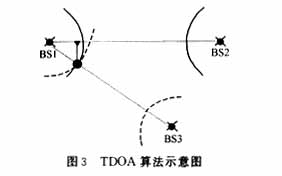 TDOA